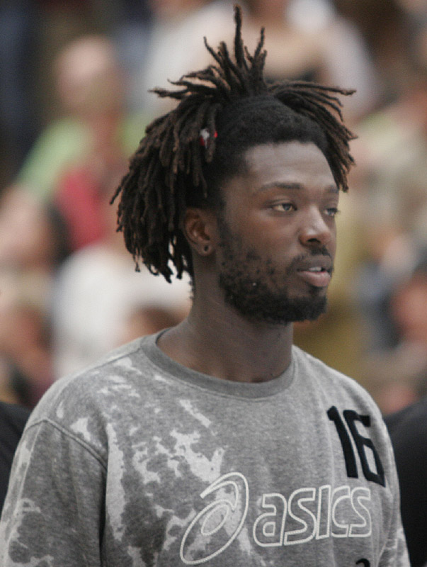 Daouda Karaboué (#16), French handball player from Montpellier HB, during the Schlecker Cup 2007 in Ehingen (Germany).